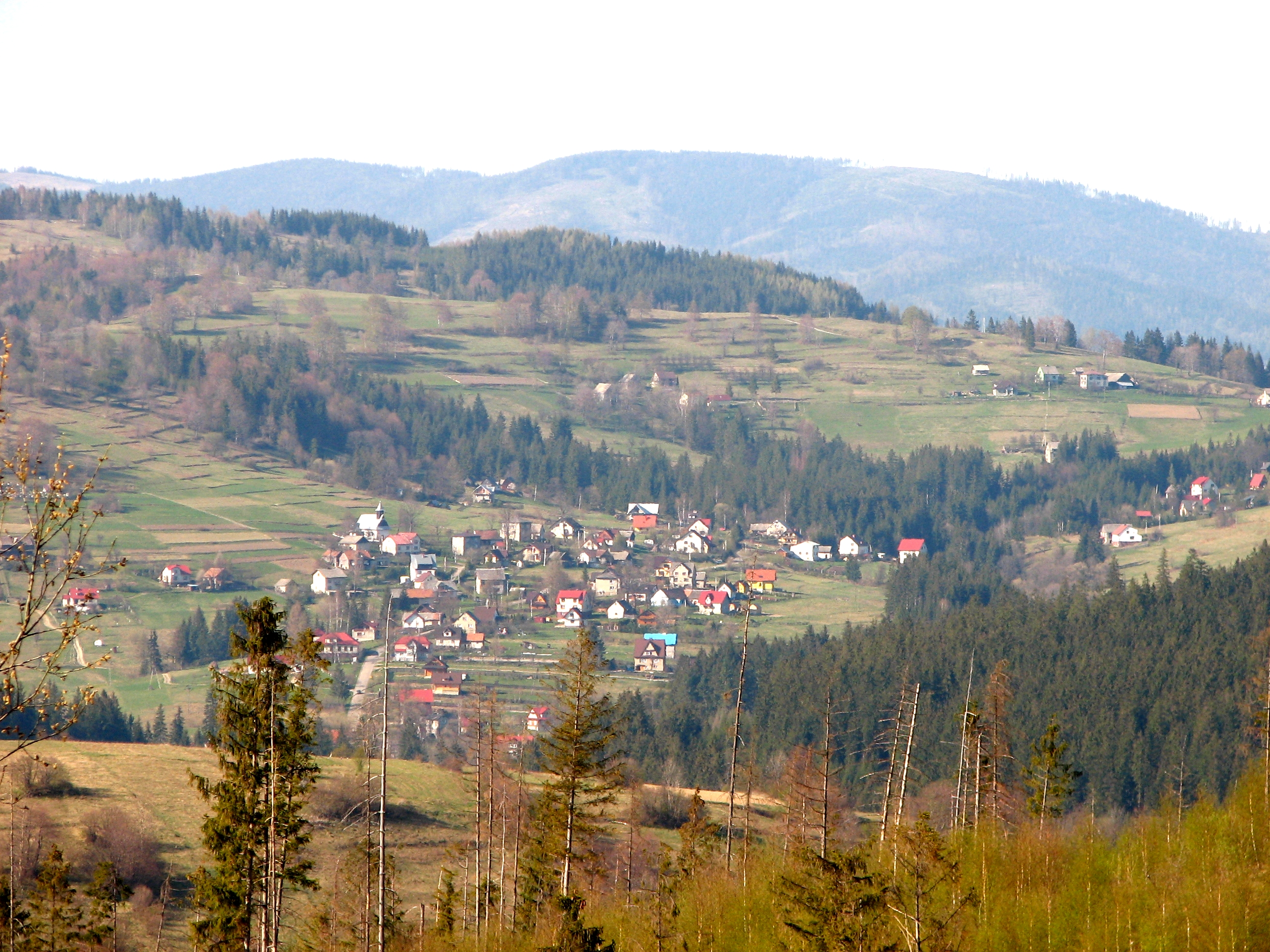 Nieledwia from Rycerka Dolna, Poland.